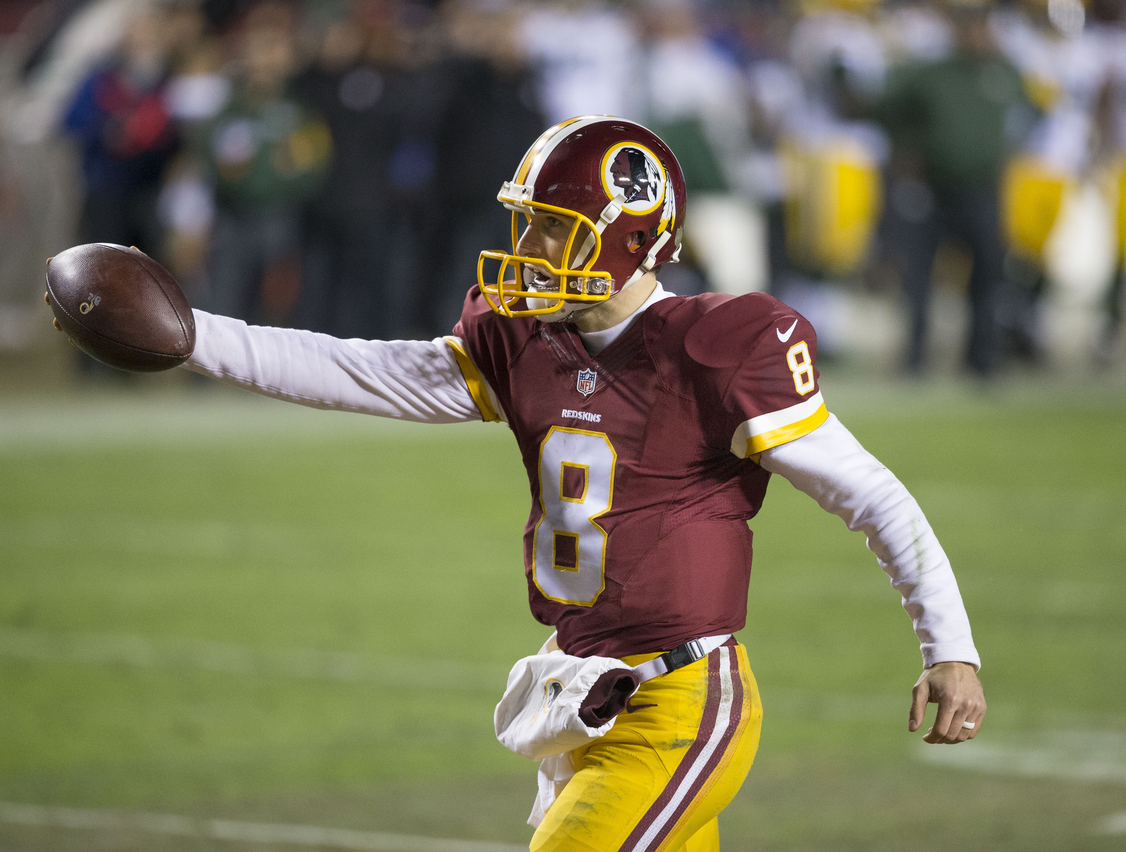 Packers at Redskins Wildcard Game 01/10/16